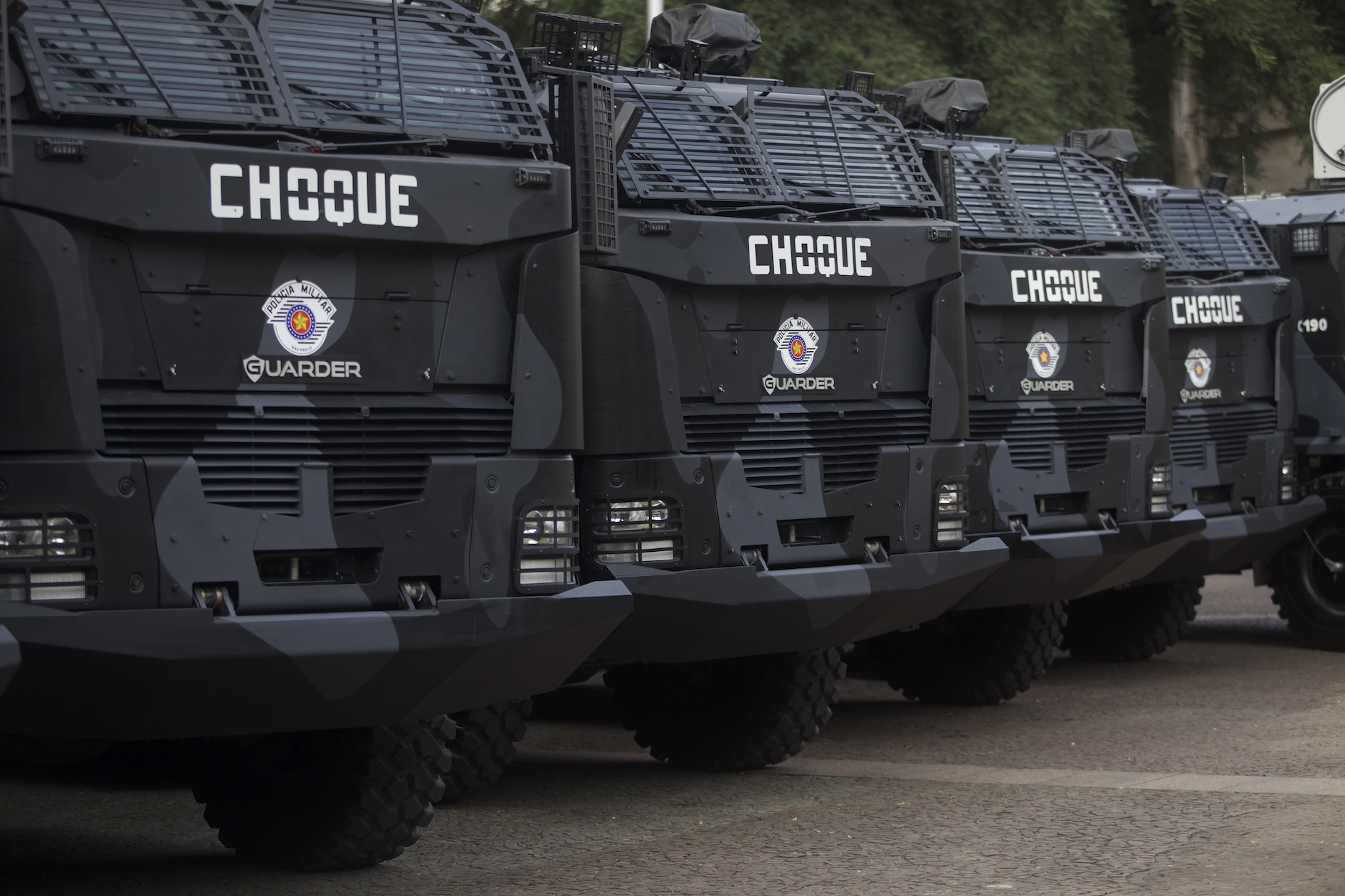 Governador do estado de São Paulo, Dr. Geraldo Alckmin, participa da entrega de 6 veículos blindados para a Polícia Militar e armamento da Polícia Civil, no vale do Anhangabaú, no centro da capital. Data: 01/07/2015. Local: São Paulo - SP. Foto: Daniel Guimarães/A2img